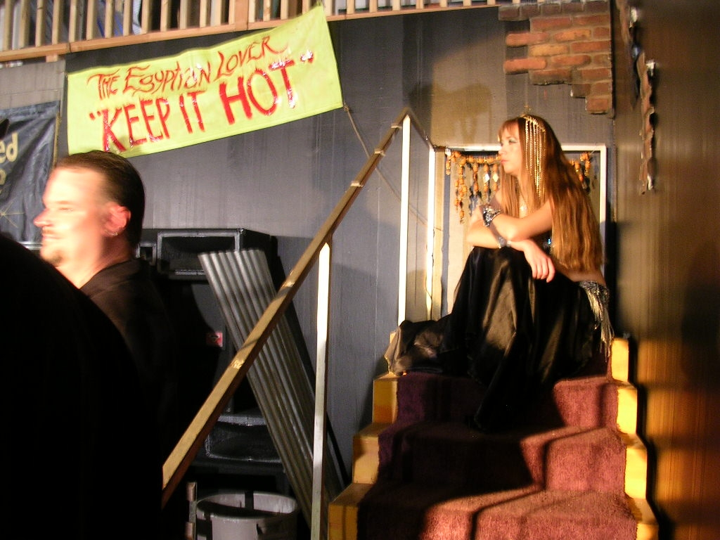 Backstage at the set where the music video for rapper Egyptian Lover's single "Keep It Hot" was being filmed. The woman on the steps is a belly dancer from the video, waiting for filming to resume during a break.